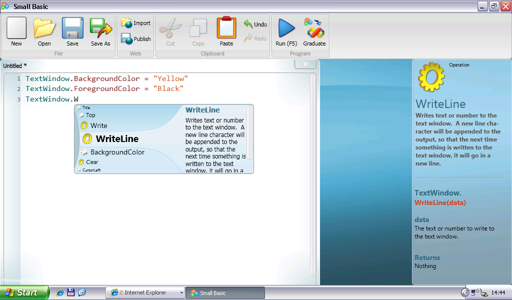 Editor Small Basic